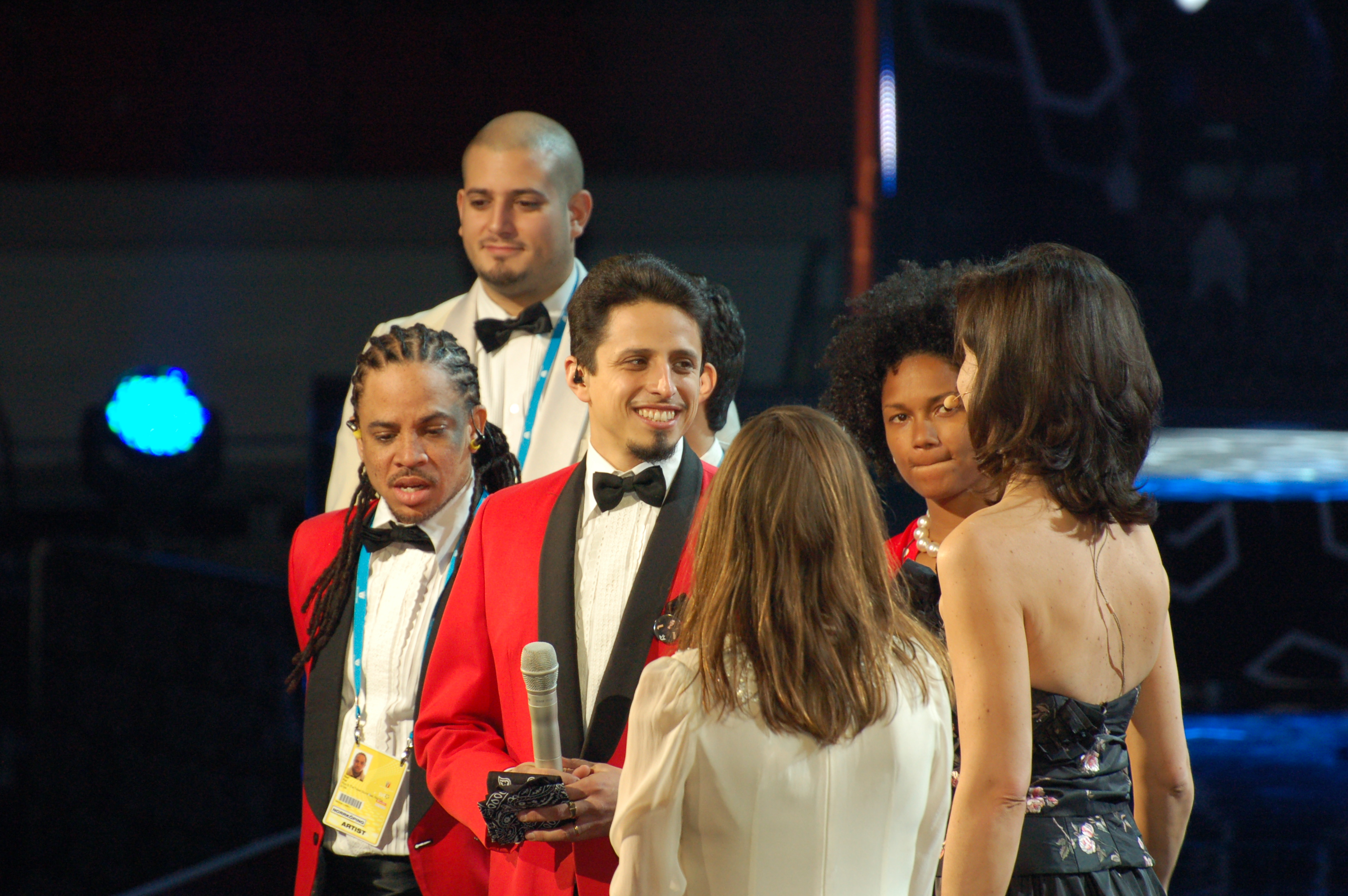 Rodrigo Pencheff at Melodifestivalen 2009 in Norrköping